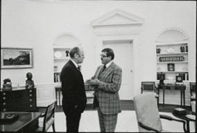 Peter F. Secchia and Gerald Ford, cropped from a NARA photo from Gerald Ford Library. Location: Oval Office, date about April 5, 1975.